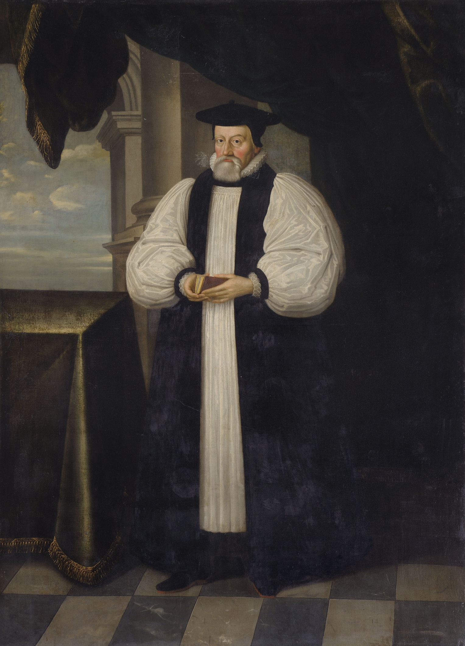 Thomas Morton (1564-1659), Fellow (1592–1593), Bishop of Durham (1632)